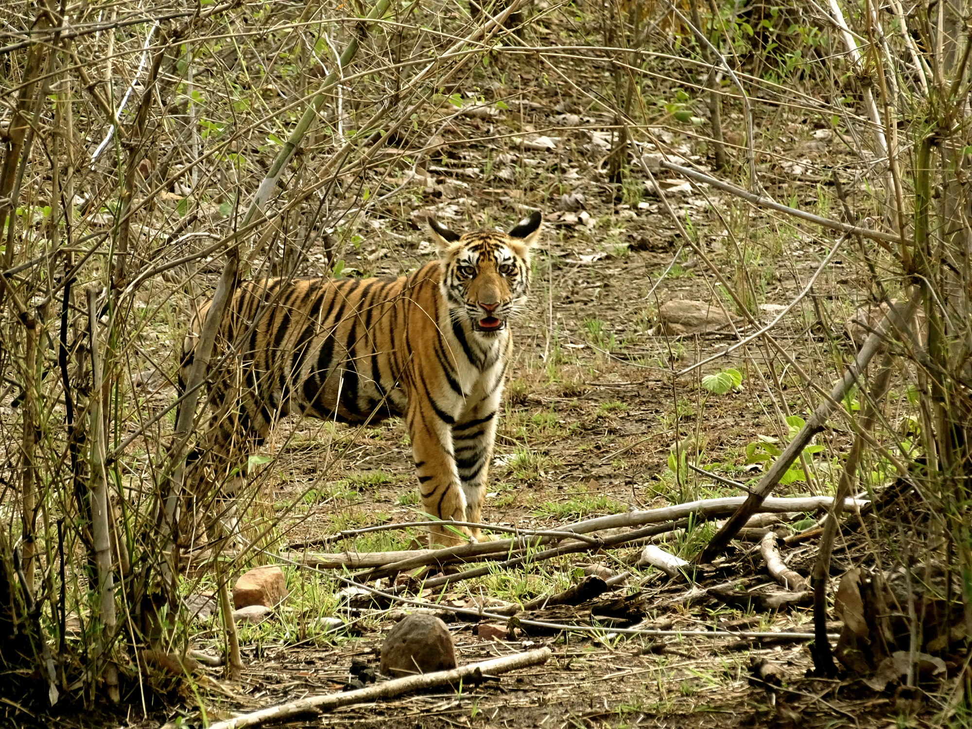 Mother tigress with her two cubs in Panna National Park, Madhya Pradesh.